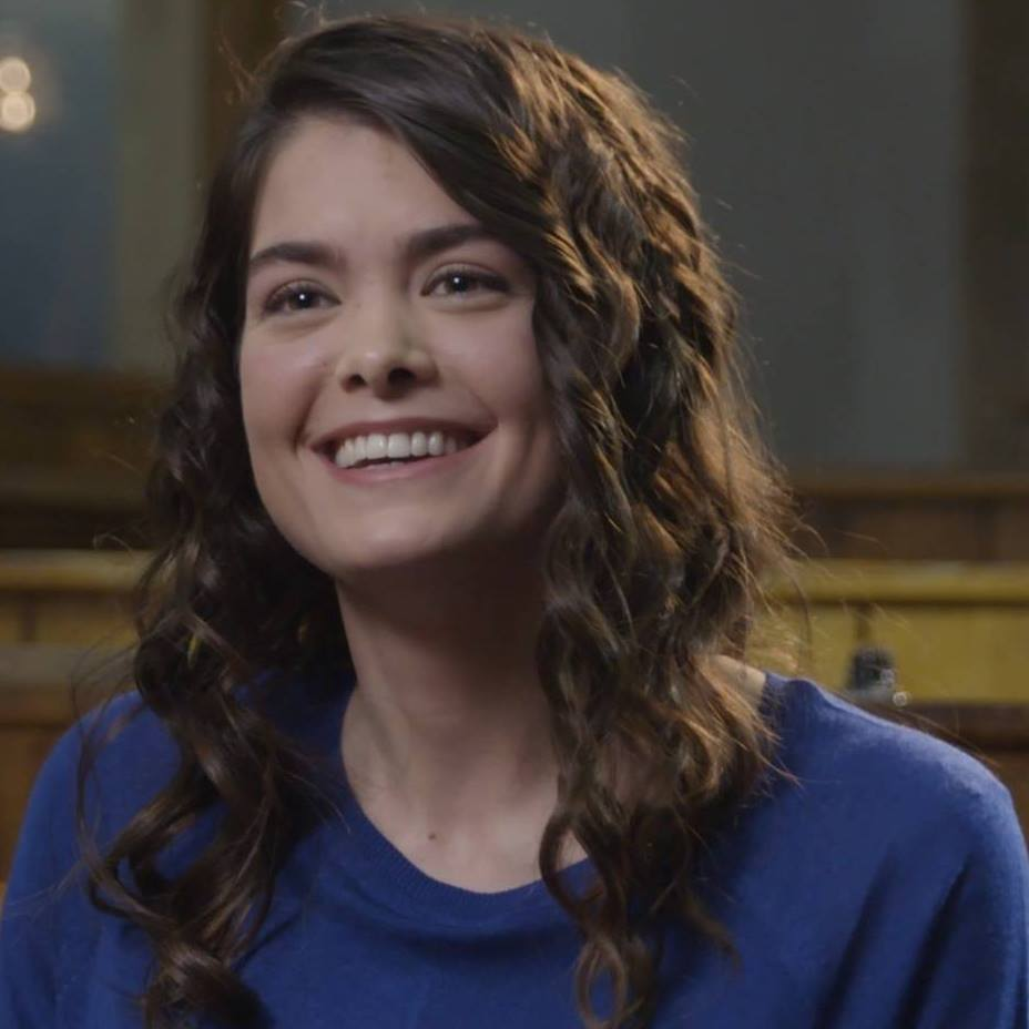 Samantha en una entrevista sobre la serie "Genios".